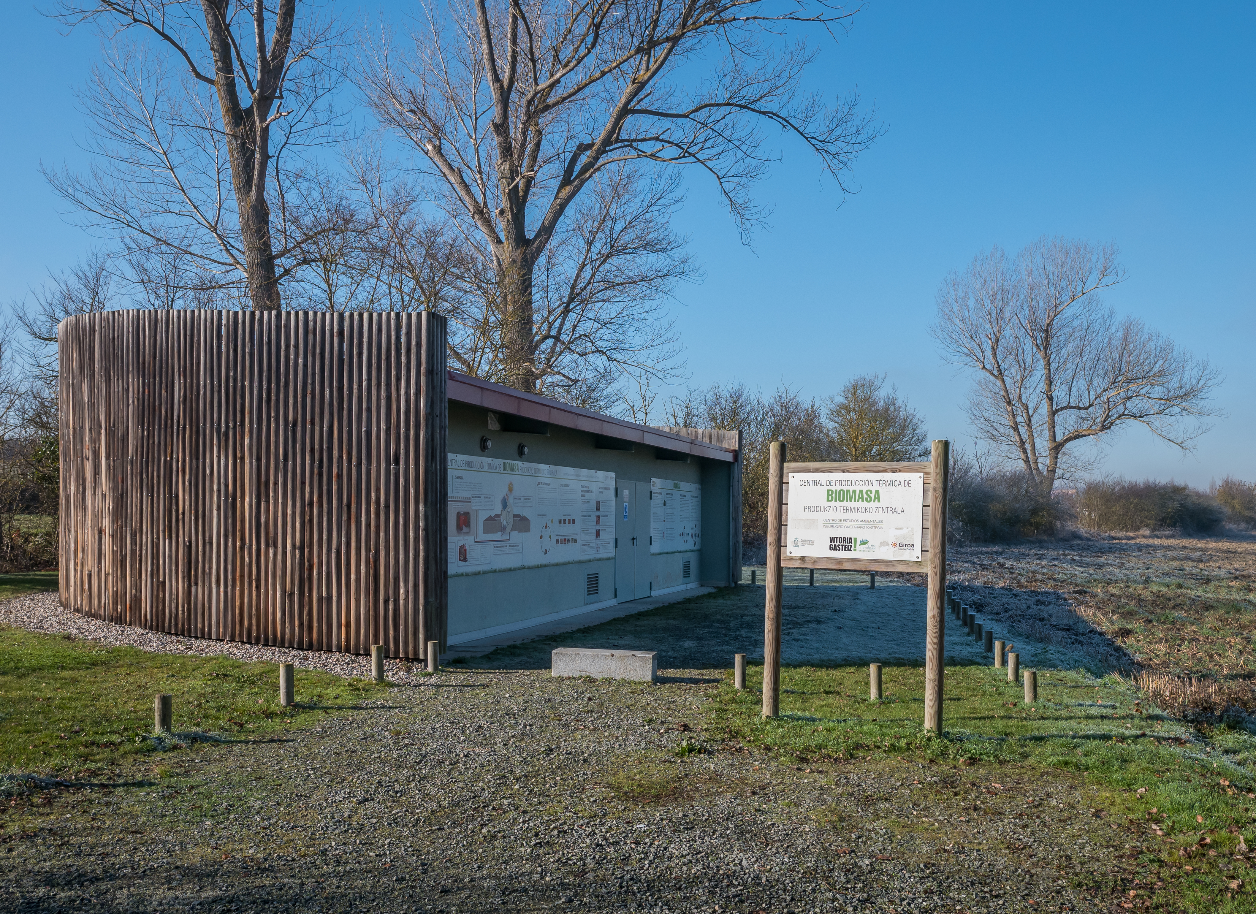 Biomass heating system for the country building "Casa de la Dehesa" at Olarizu meadows. Vitoria-Gasteiz, Basque Country, Spain